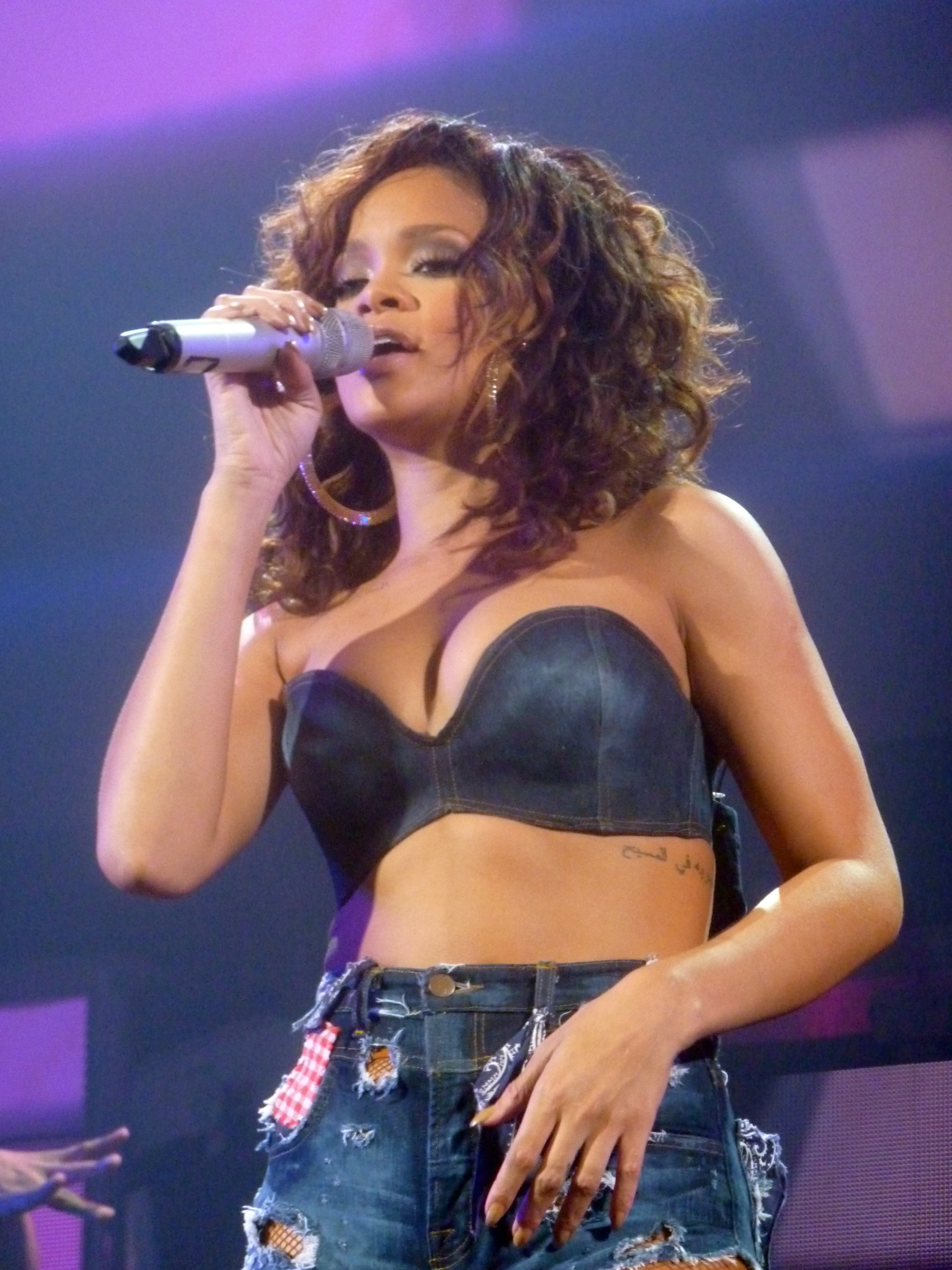 Live In Paris - Paris Bercy 2011